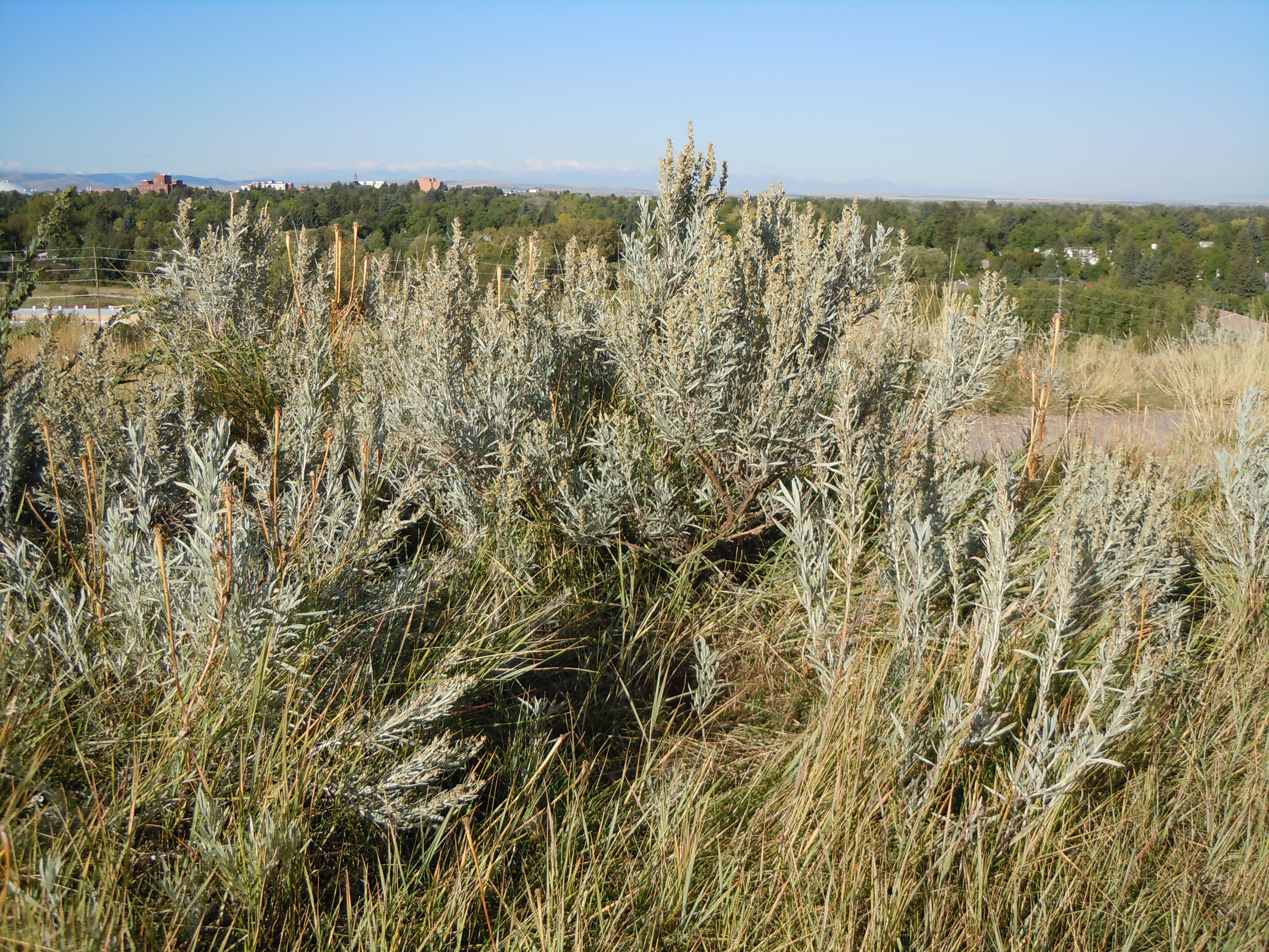 Adjacent shrubs are often connected by rhizomes (underground stems). Such underground growth probably allows silver sagebrush to endure trampling, burning, and other above ground disturbances.